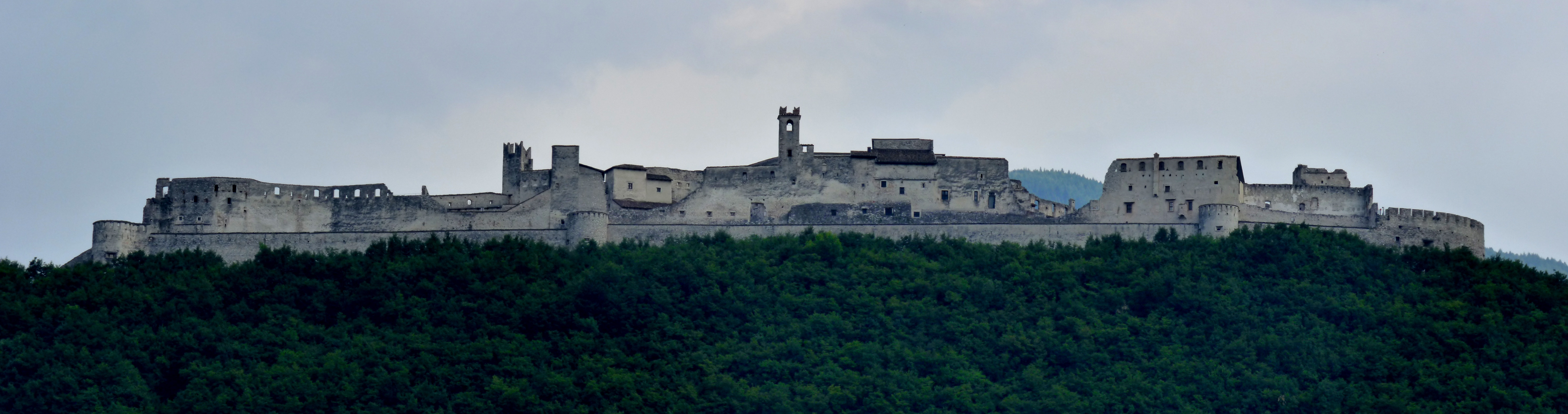 Besenello (province of Trento, Italy): panorama of Castel Beseno